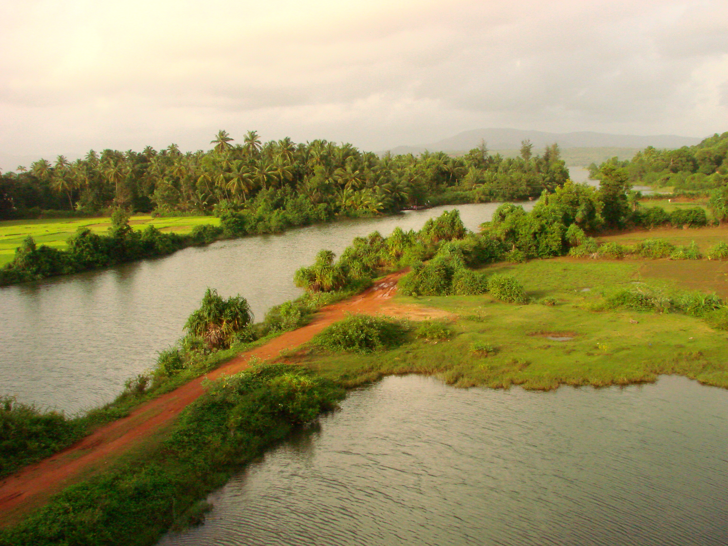 Countryside and rice paddies south of Goa, India. July 2008.